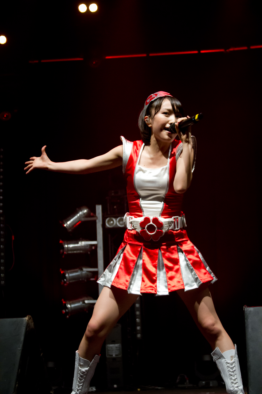 Japan Expo 13 - 2012 Cover pics by Dj ph All sets here : bit.ly/LHdWLq